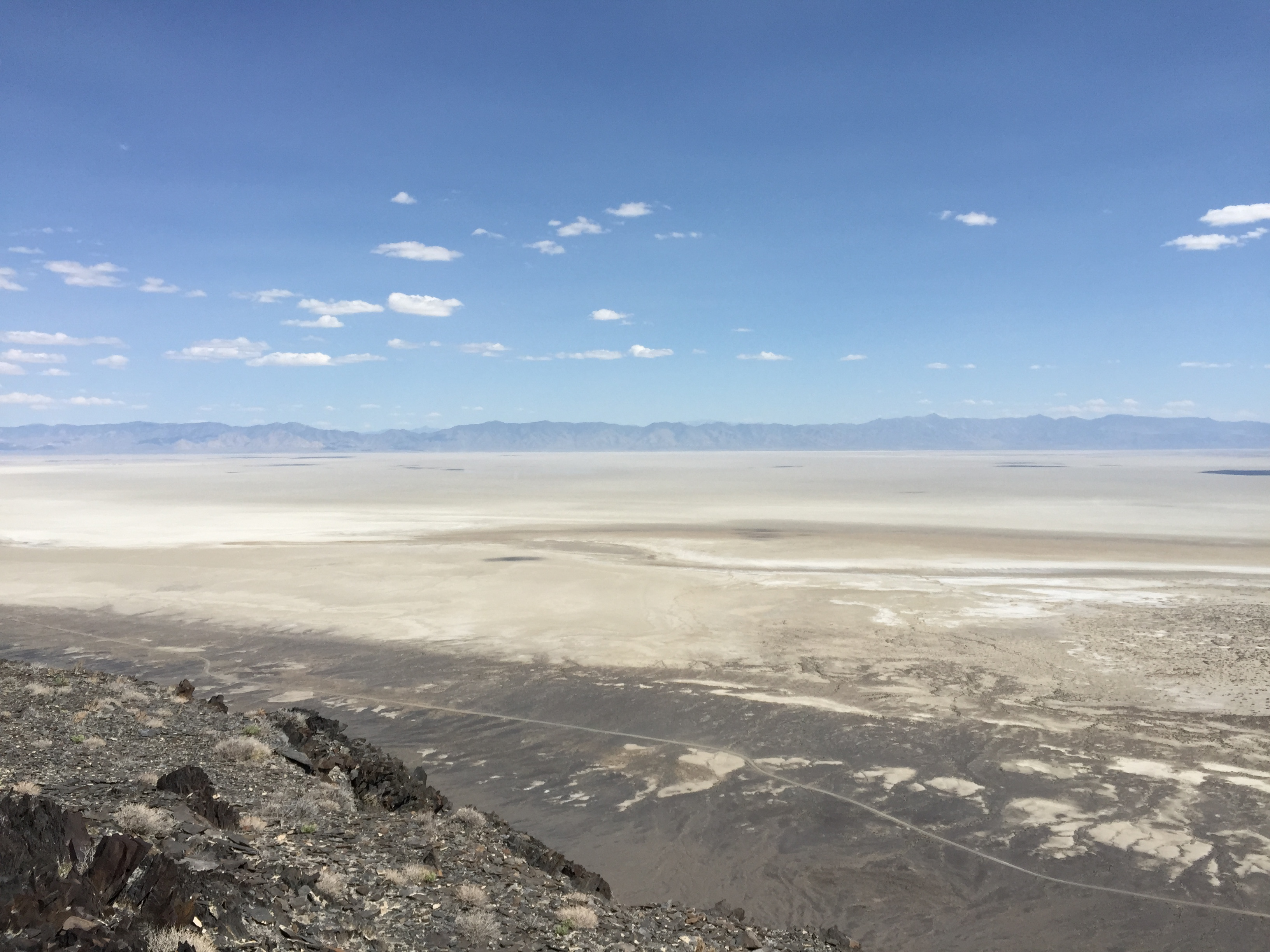 View southeast from Topog Peak, Nevada